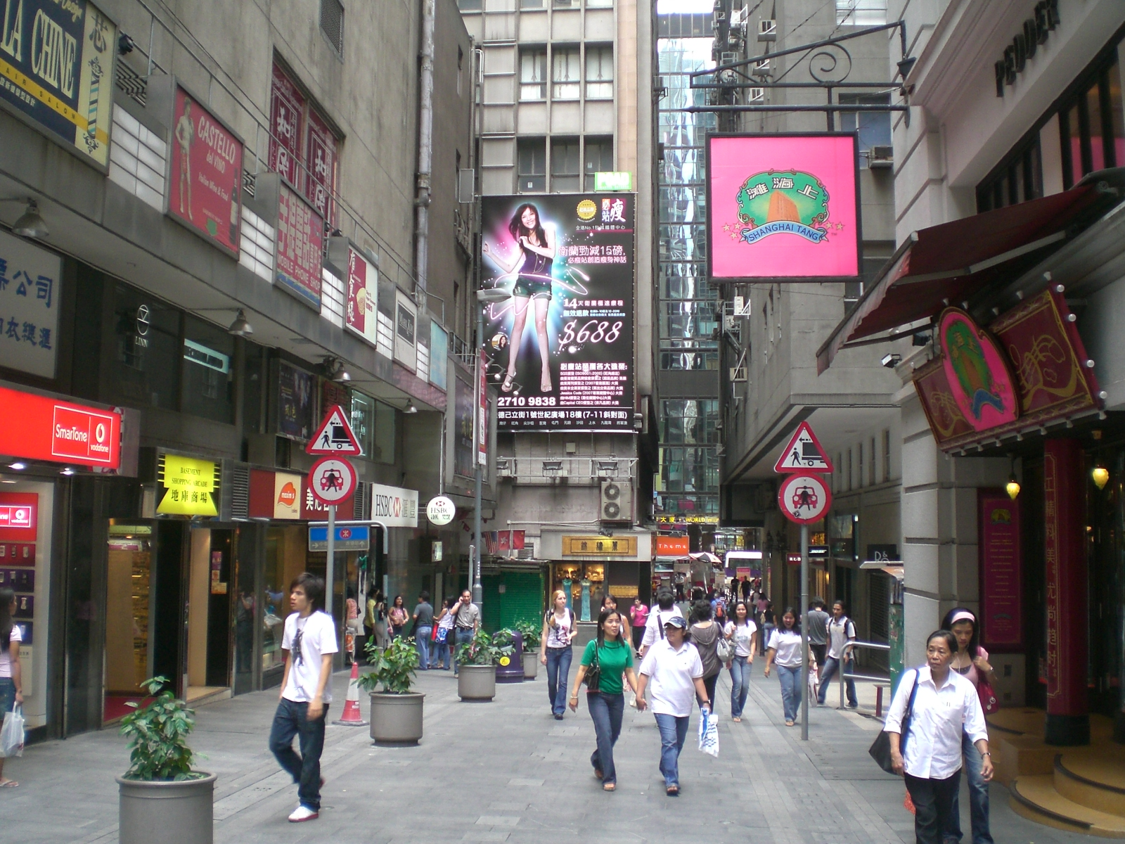 Author= DDMLL 陸海通大廈, Luk Hoi Tong Building, 戲院里步行街